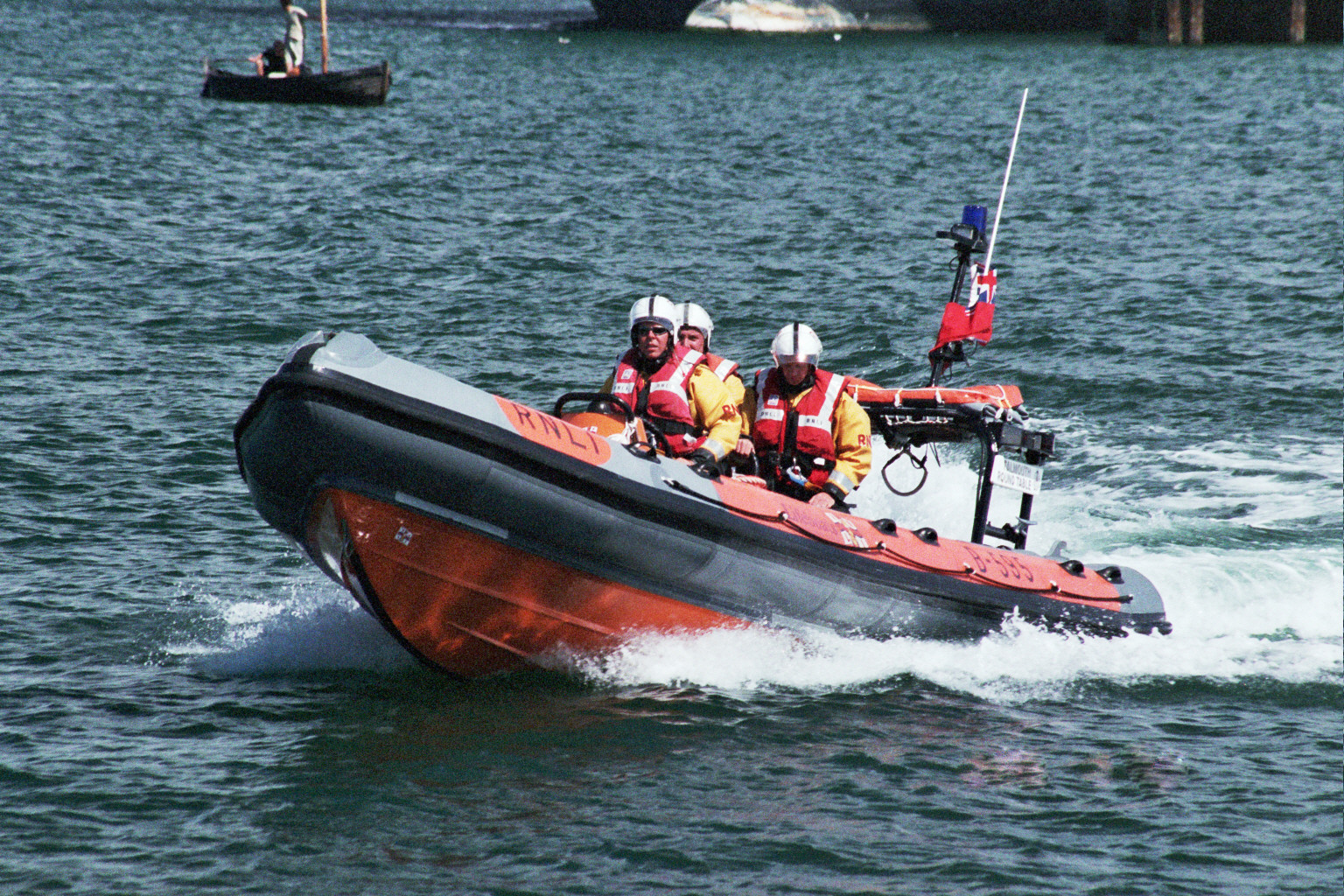 author: Dave Taskis (me); source: Falmouth RNLI day; camera: Canon EOS620 with 300mm lens; film: 1600 ASA Fuji Superia. Dyvroeth 10:14, 26 August 2006 (UTC)